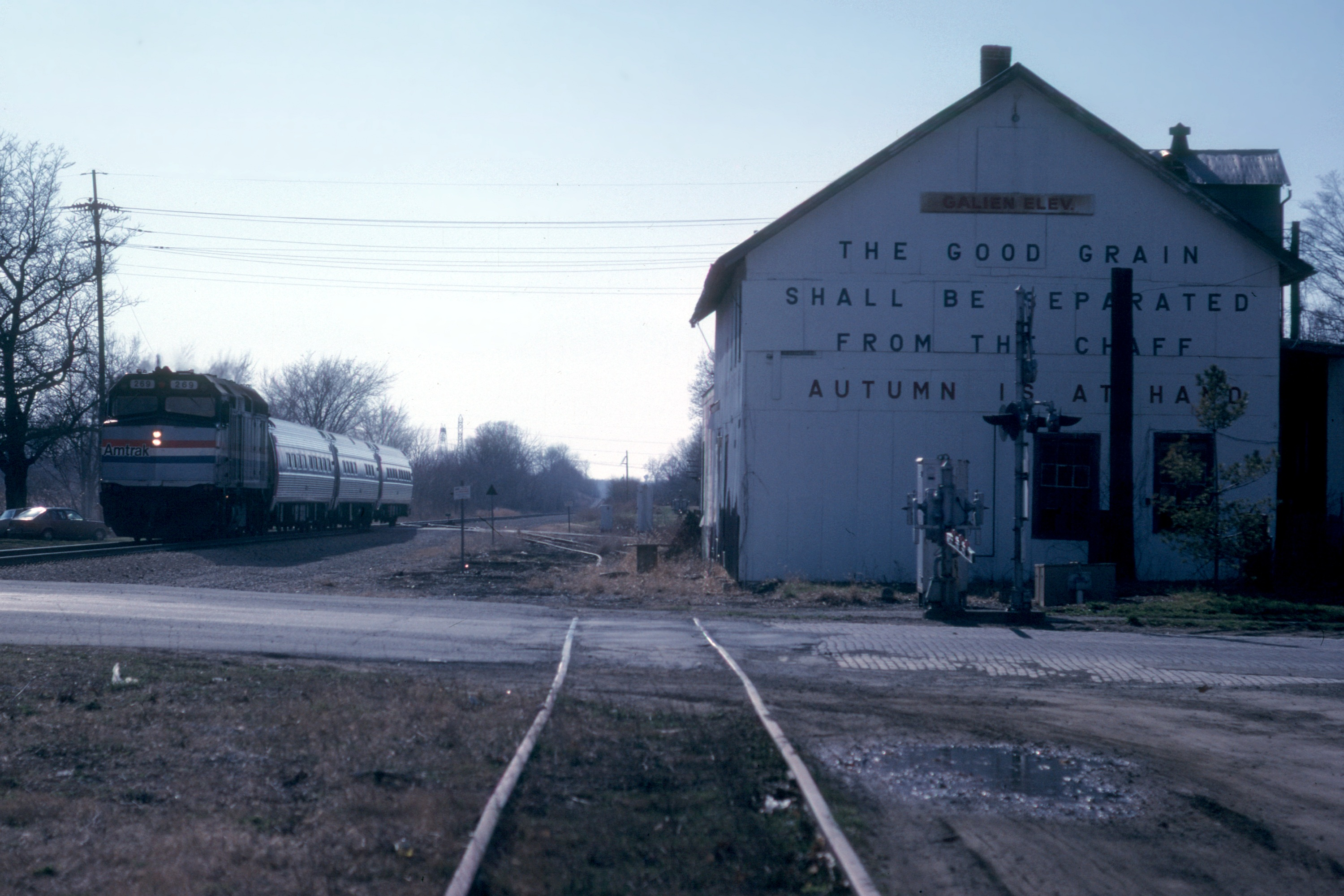 The eastbound Lake Cities passes through Galien, Michigan in April 1987